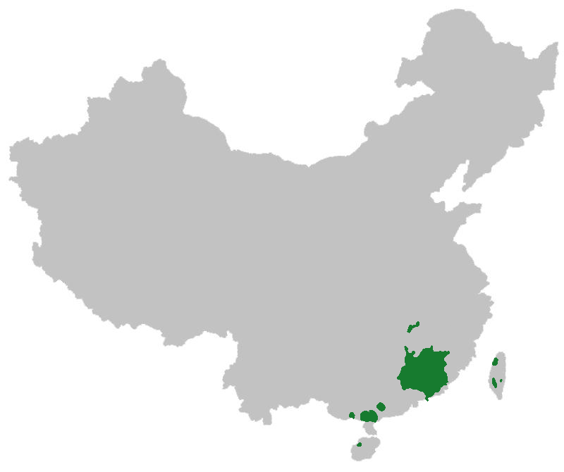 Linguistic maps of Hakka in China/Taiwan/Hainan